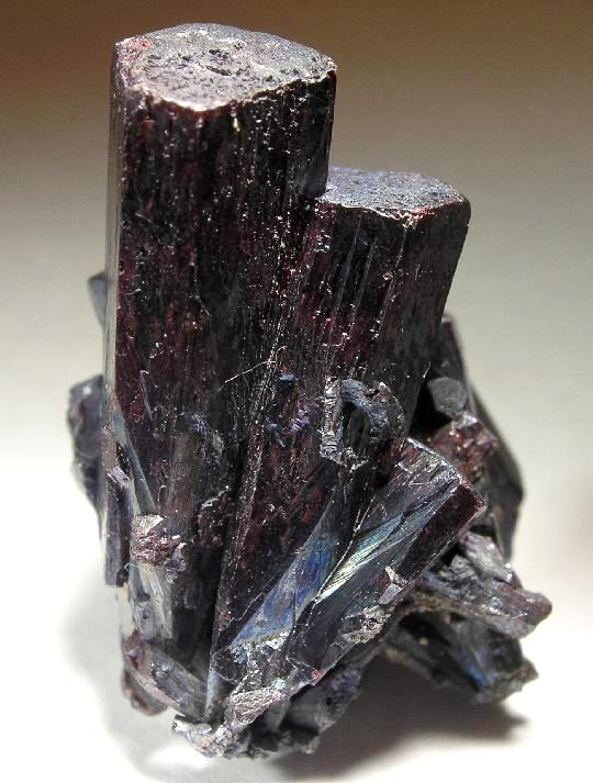 Pyrargyrite Locality: St Andreasberg District, Harz Mts, Lower Saxony, Germany (Locality at ) For luster, form, rarity, and aesthetics, this thumbnail is superb. Even better in person. It has super-sharp crystals that are richly red. Out for analysis to be sure it is pyrarg and not proustite... 2.2 x 1.5 x 1.2 cm